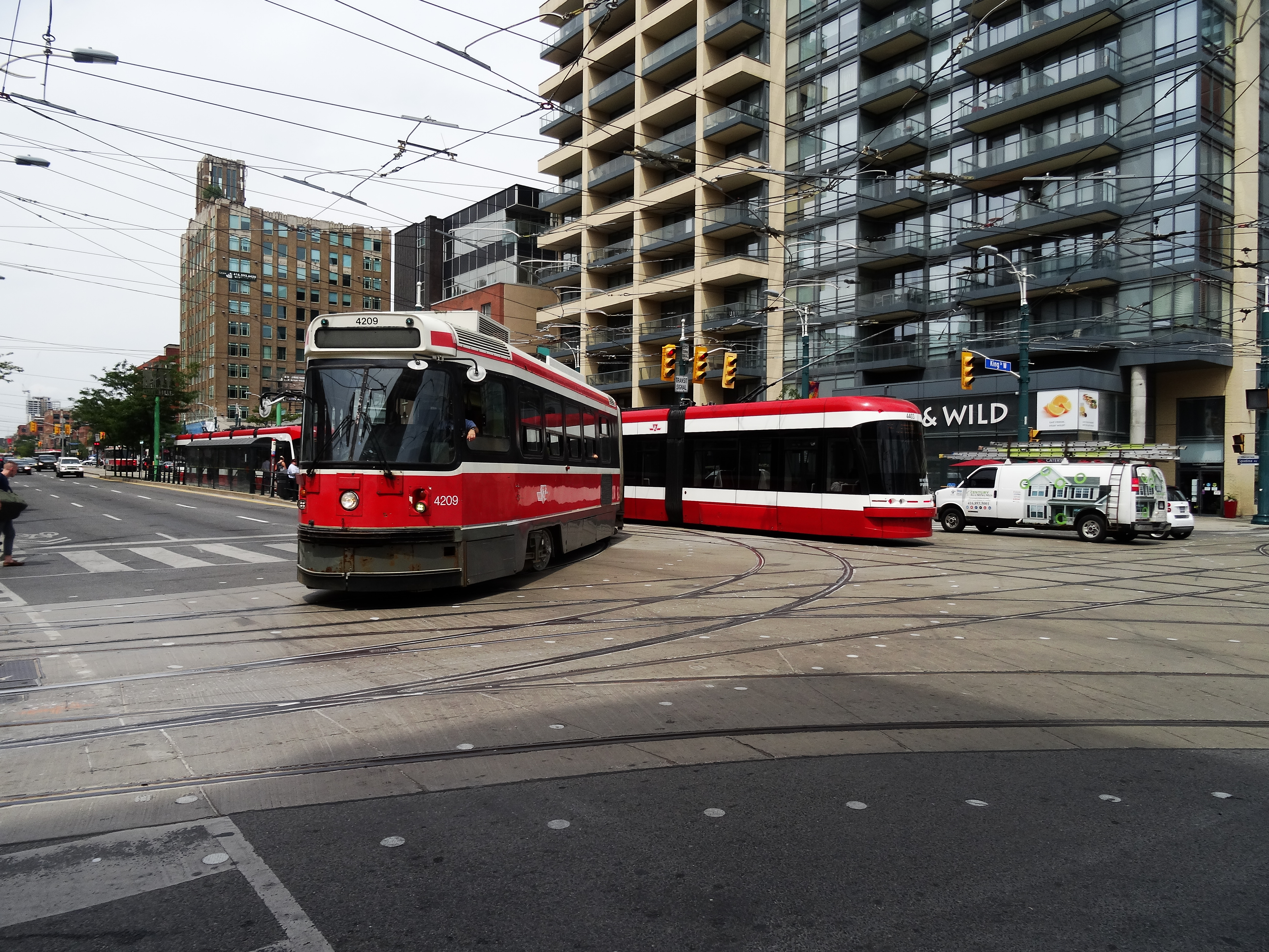 New Flexity LR vehicles approach Spadina and King, 2016 07 21 (16).JPG